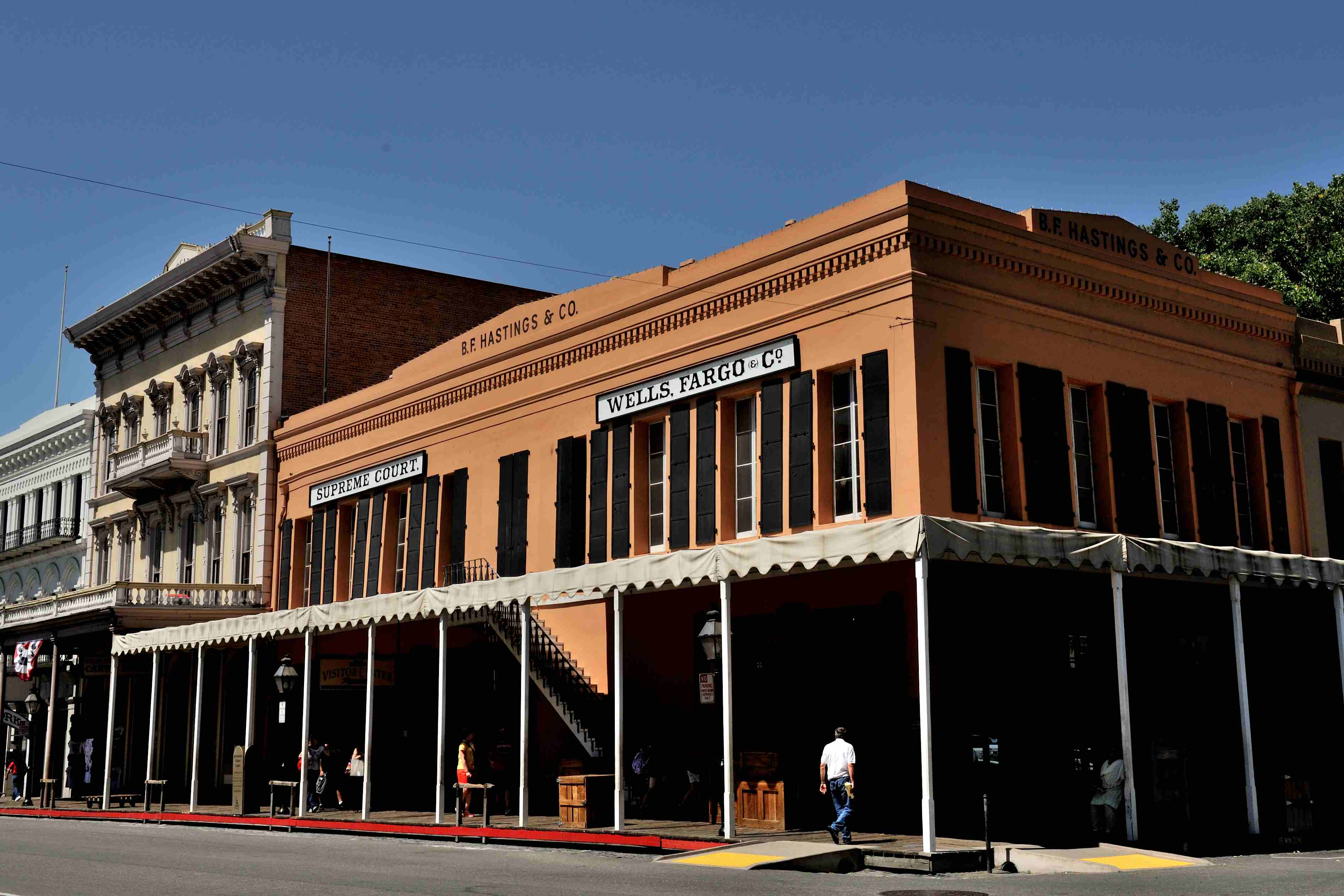 BF Hastings & Co and Wells Fargo buiding Last stop of Pony Express mail service